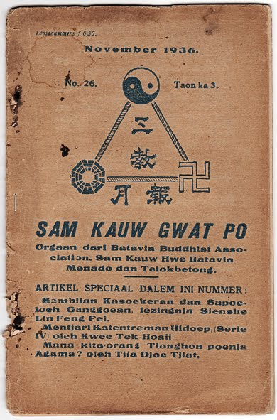 Cover of the magazine Sam Kauw Gwat Po